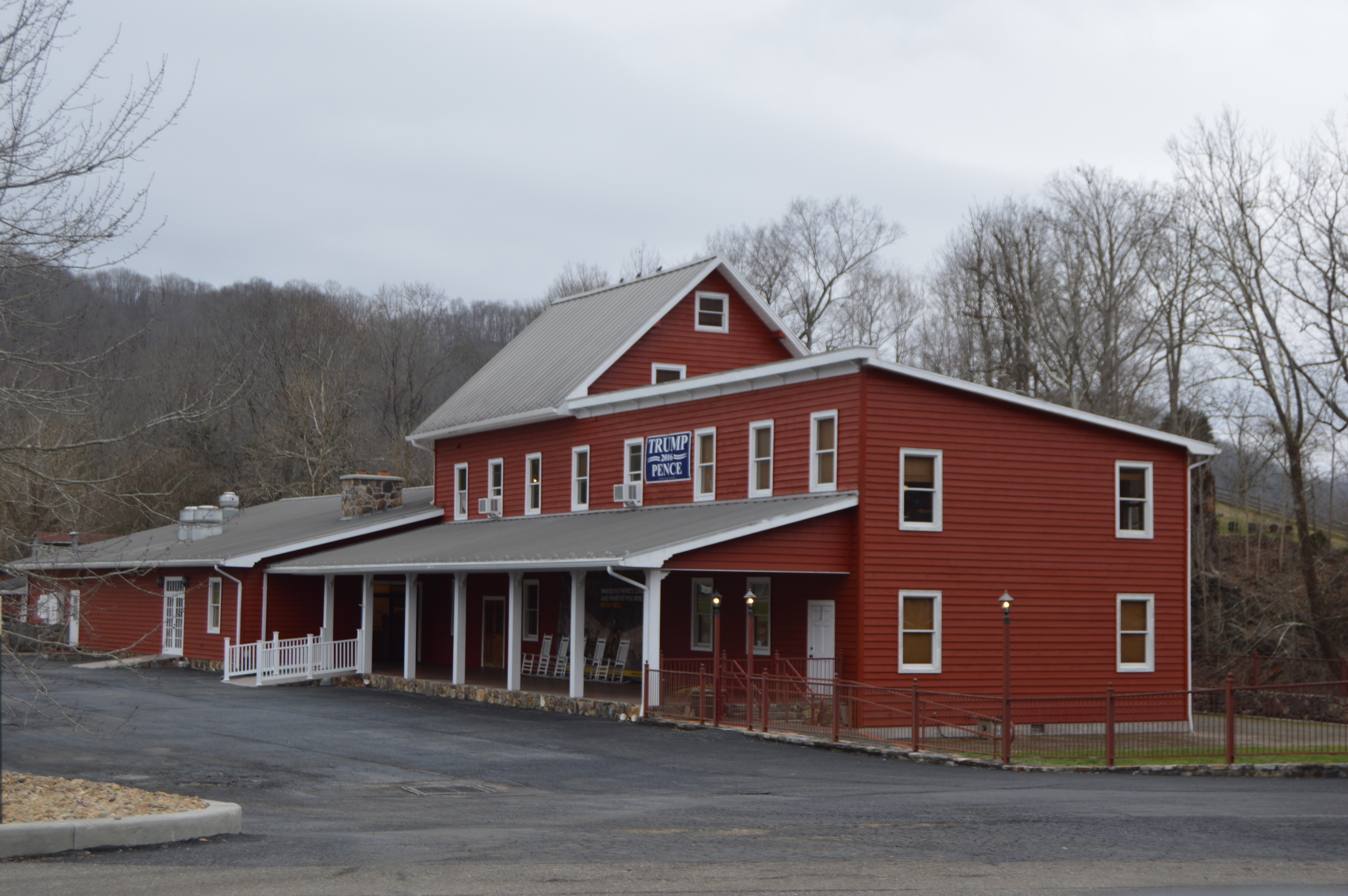 Northern end and front of the Clinch Valley Roller Mills complex, located on River Road in Cedar Bluff, Virginia, United States. Built in 1884, it is listed on the National Register of Historic Places, and it is part of a Register-listed historic district, the Old Kentucky Turnpike Historic District.